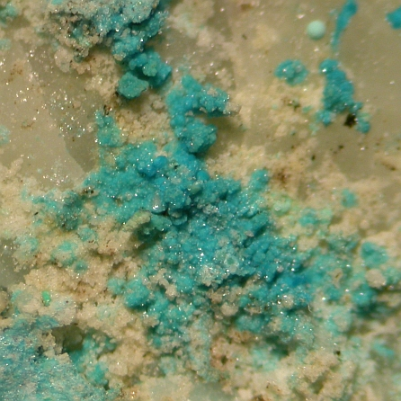 Claraite Locality: Sommerau District, Brixlegg - Rattenberg, Brixlegg - Schwaz area, Inn valley, North Tyrol, Tyrol, Austria Field of view 3 mm. Specimen and photo Leon Hupperichs.